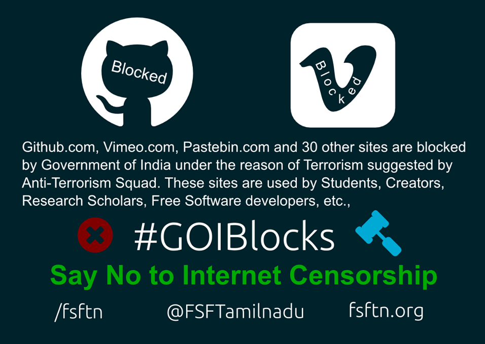 A poster by the Free Software Foundation Tamil Nadu protesting the blocking of 32 websites by the Government of India for reasons of terrorism.